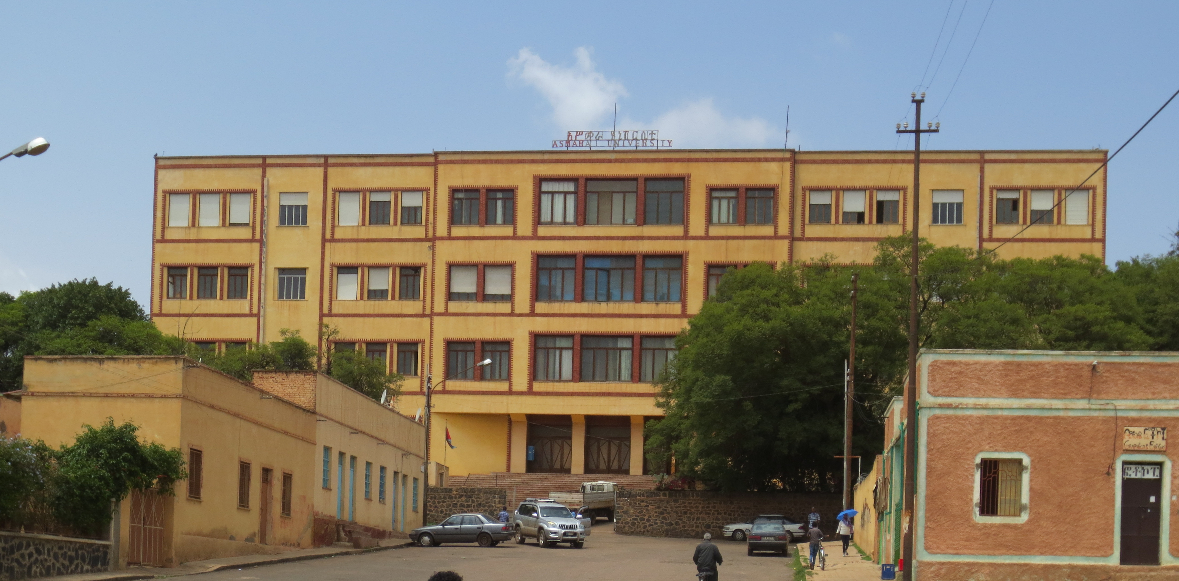 The University of Asmara, this building is the faculty of Medicine, the only faculty that is still in the city of Asmara.